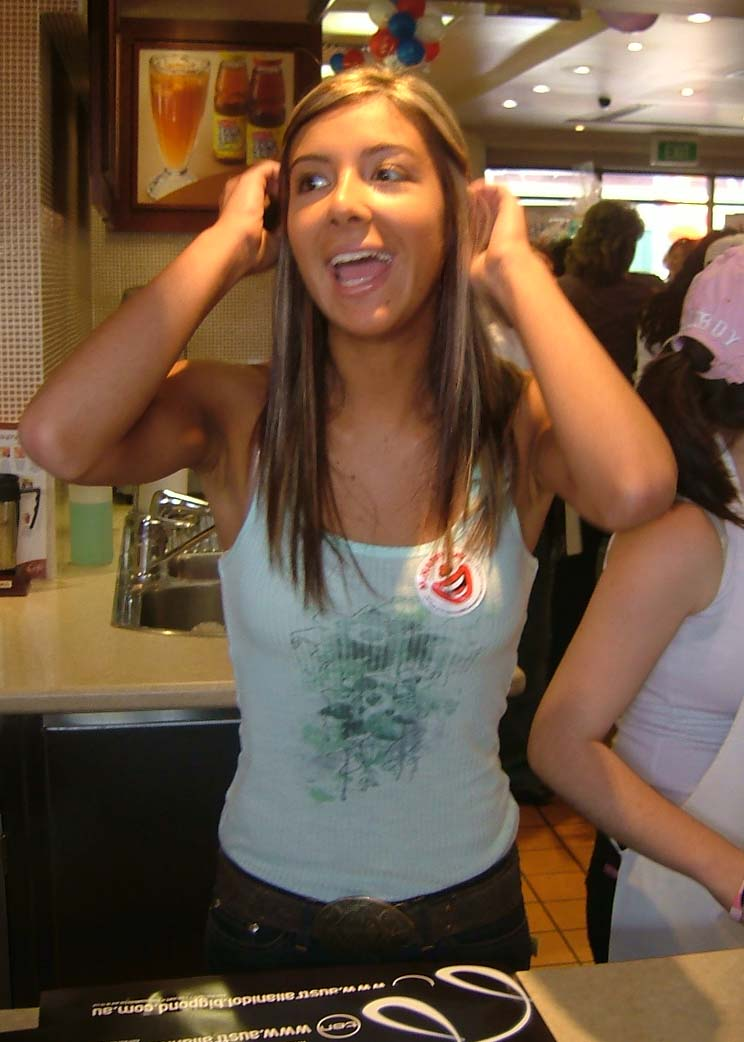 Australian Idol finalist